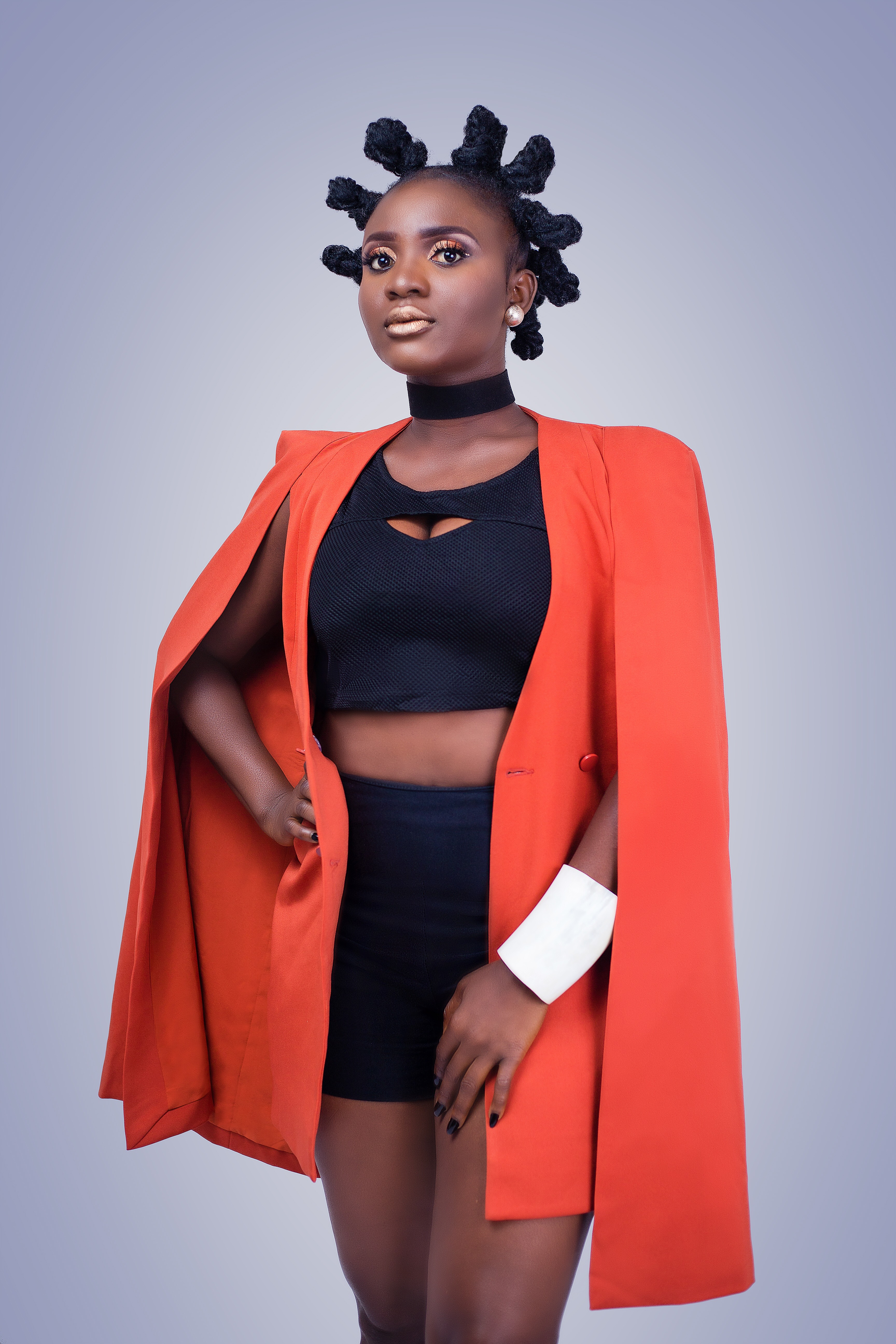 Ghanaian musician Lamisi.